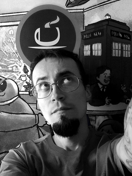 Editor da Café Espacial